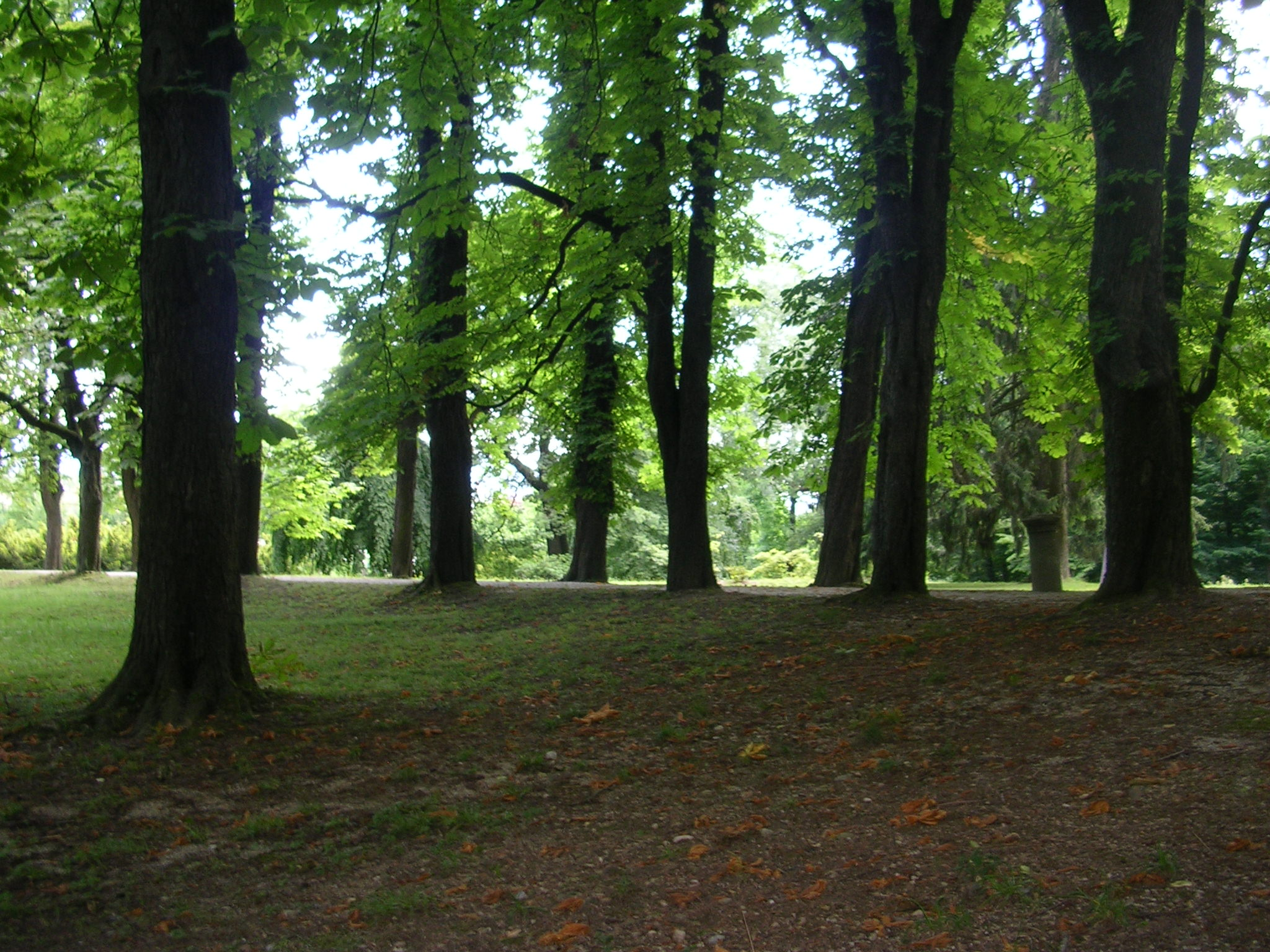 Trees in Park Tivoli, Ljubljana, Slovenia